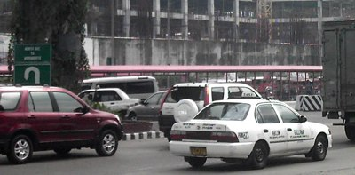 MMDA U-turn slot along EDSA-North Avenue.